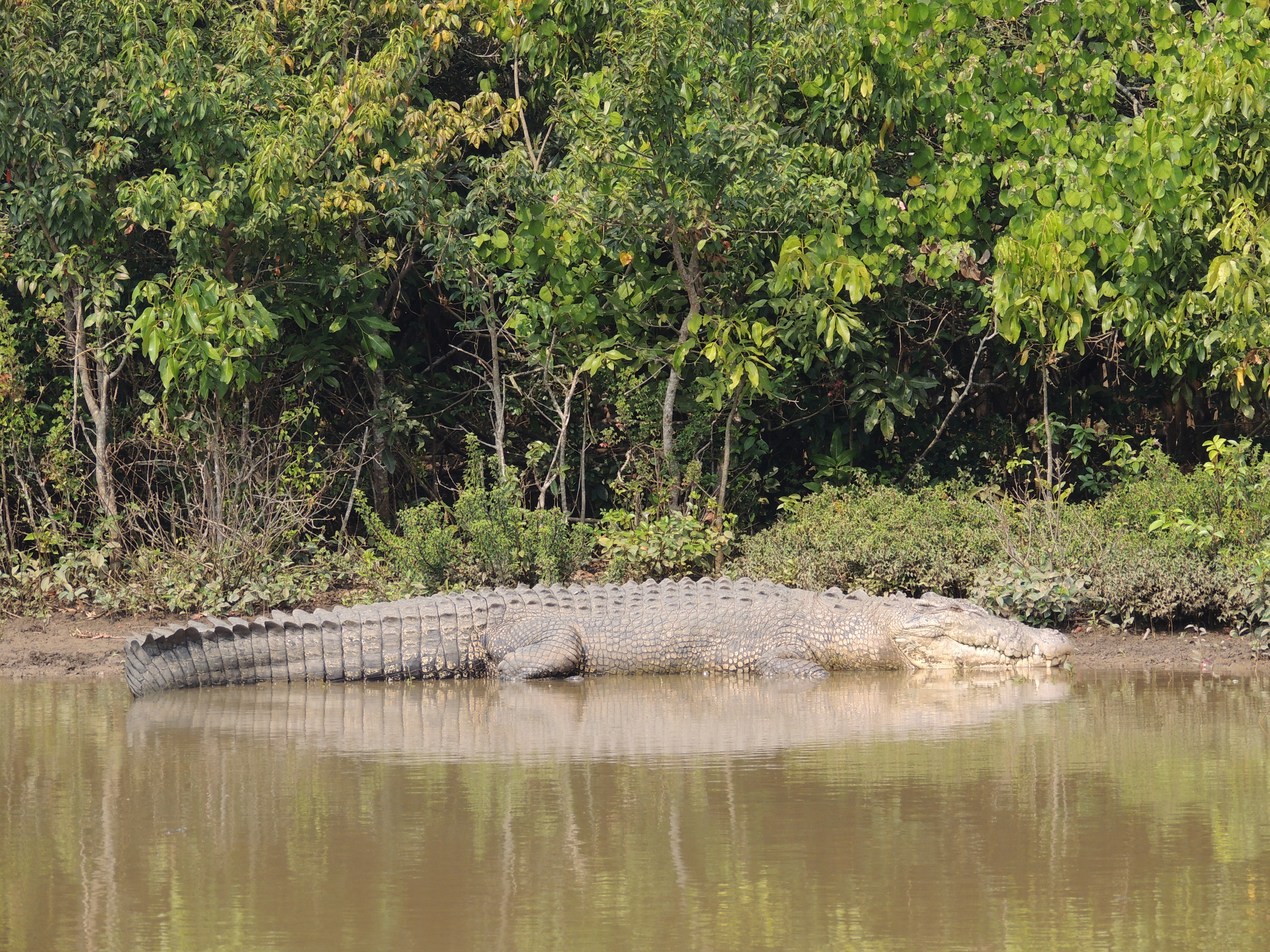 One of the largest crocodile in Bhitarkanika national park, Odisha.